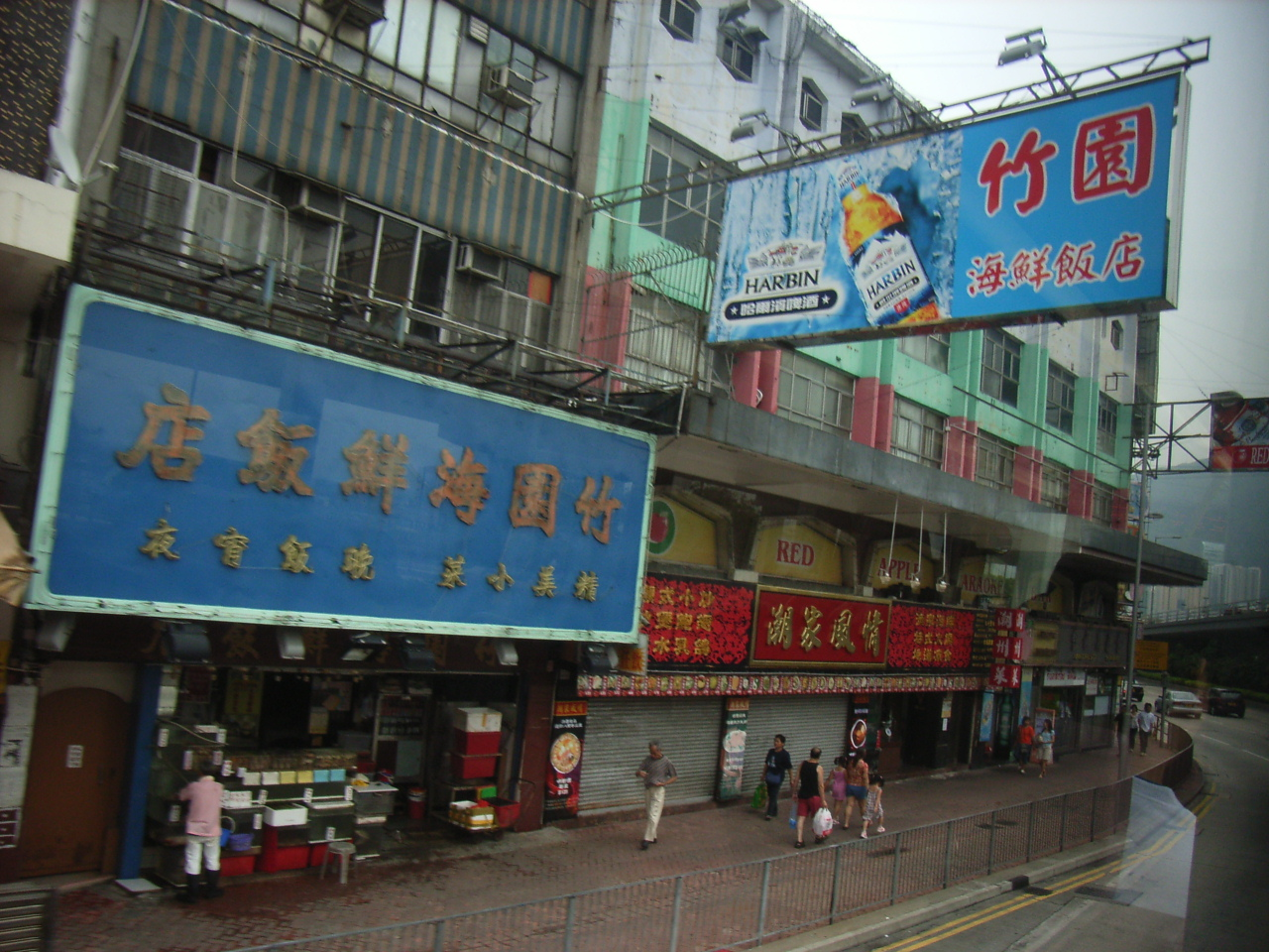 太子道東, 九龍城太子道 Prince Edward Road East, Kowloon City, Kowloon, Hong Kong. Photo author is me, User:Kwanyatsw